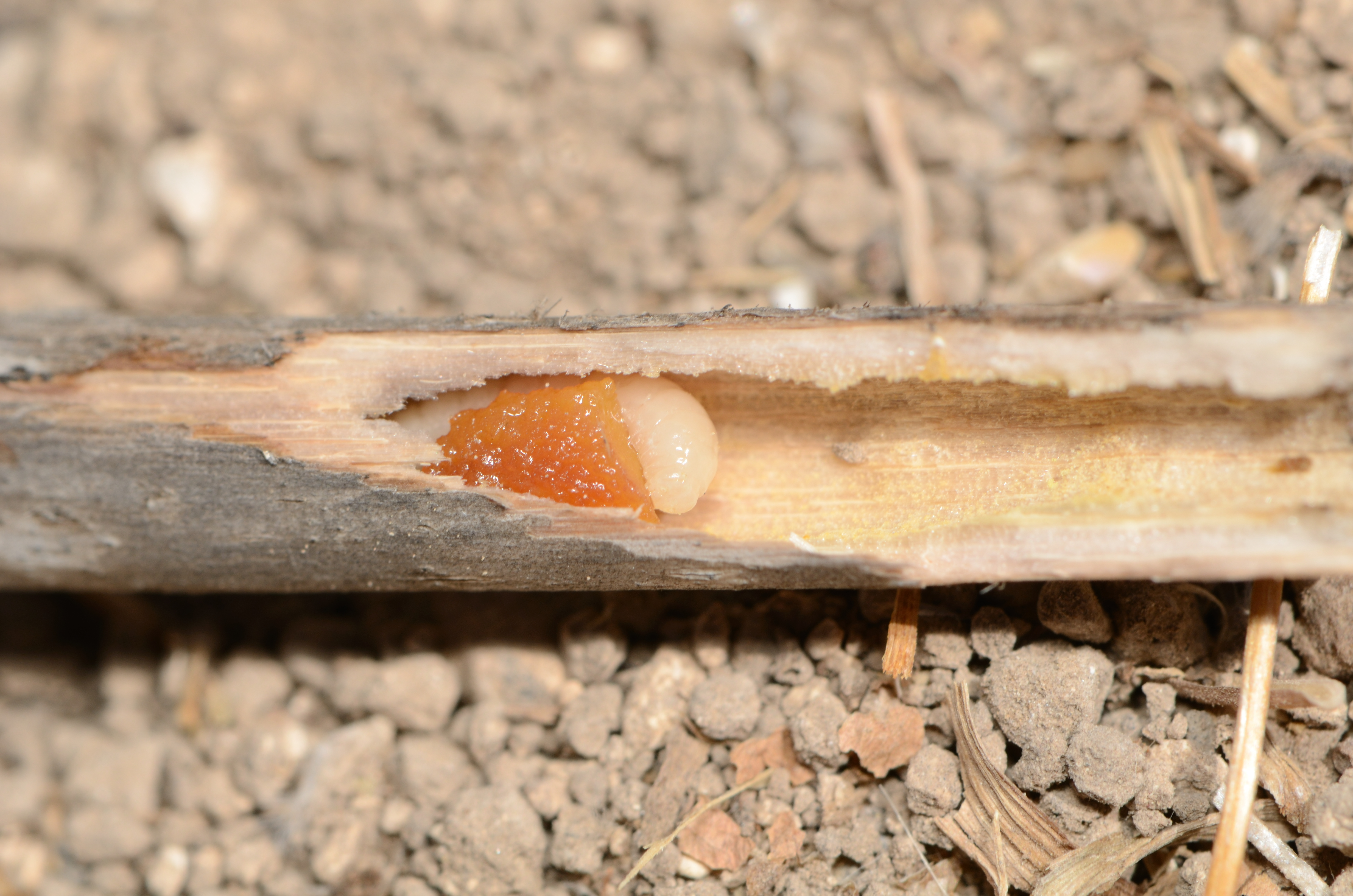 Interior of Ceratina bifida nest in a stem of Asphodelus ramosus, showing larva with pollen bread. Judean Foothills, Israel, May 17, 2012.